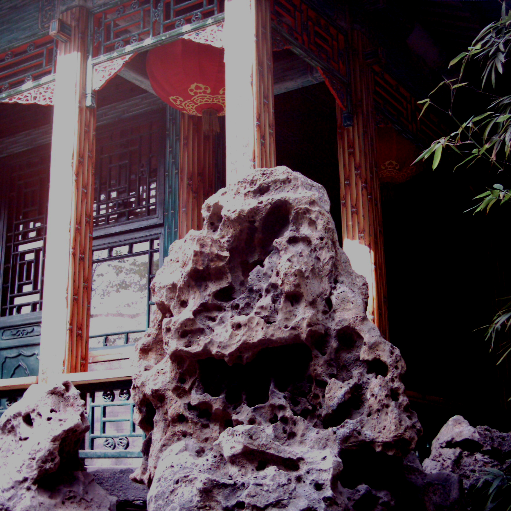 A TaiHu (Scholar's rock) in the Summer Palace, Beijing.